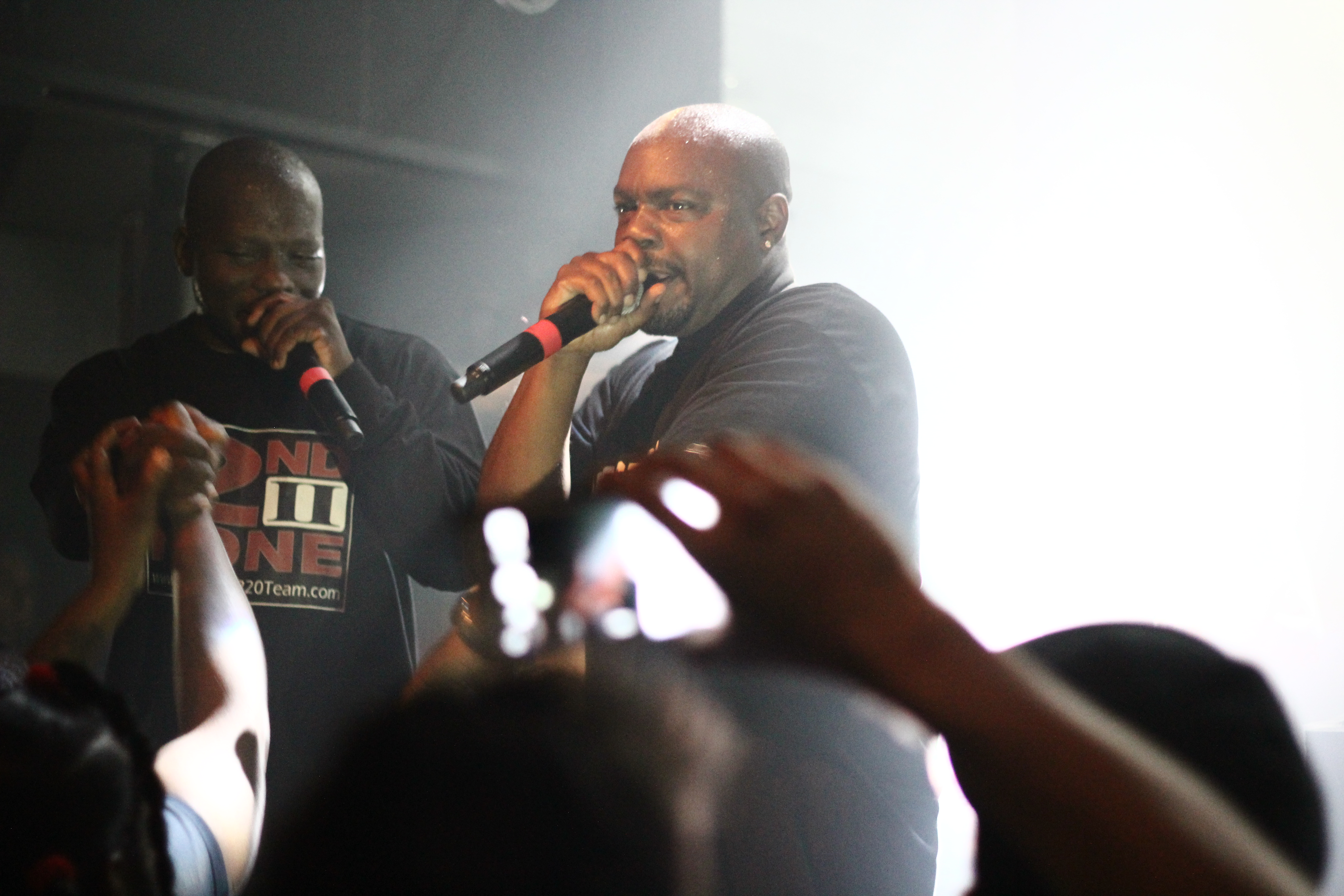 2nd II None - Petit Bain, Paris in 2014